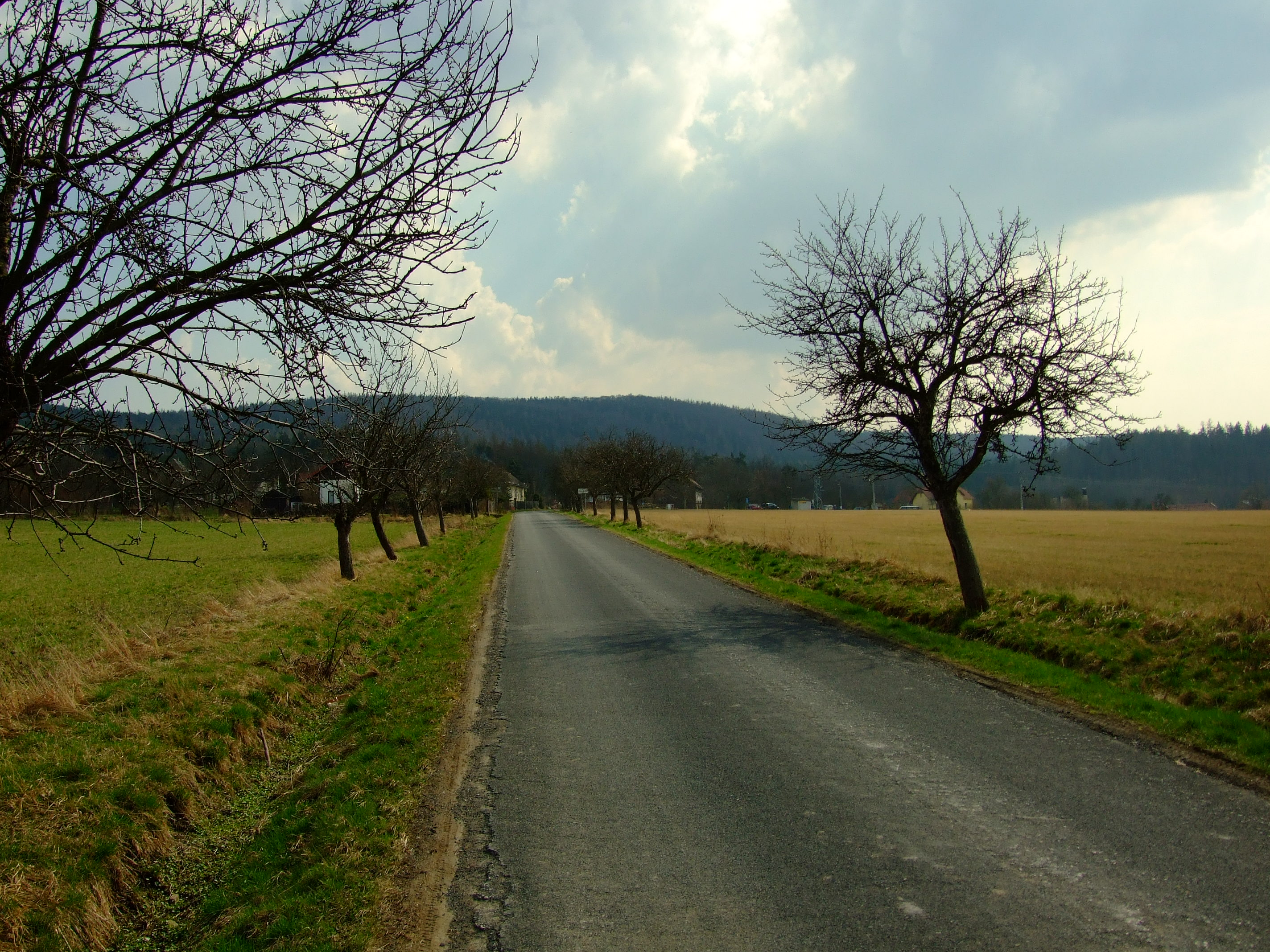 Landscape in Central Bohemia, near Berounka river and Český Kras CHKO